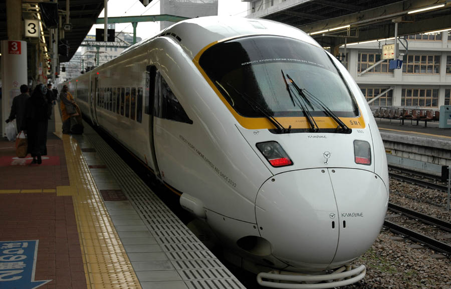 JR Kyushu 885 series EMU on a Kamome service at Hakata Station